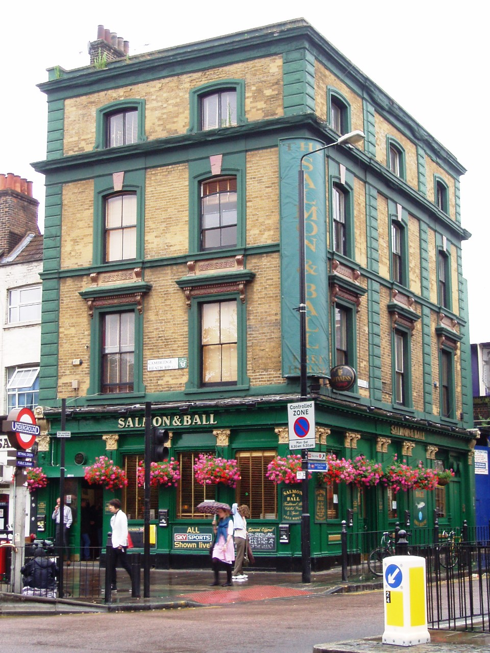 Slightly dodgy looking place just by the station, but not too bad during the day at least. Address: 502 Bethnal Green Road. Former Name(s): Tipples. Owner: Watney Combe Reid (former). Links: Beer in the Evening Dead Pubs (history)